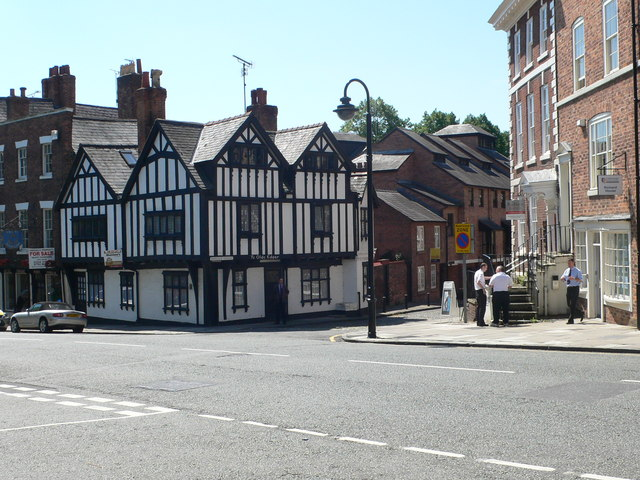 The Old Edgar, Chester On the corner of Lower Bridge Street and Shipgate Street. There are two houses here, where there was formerly an inn.